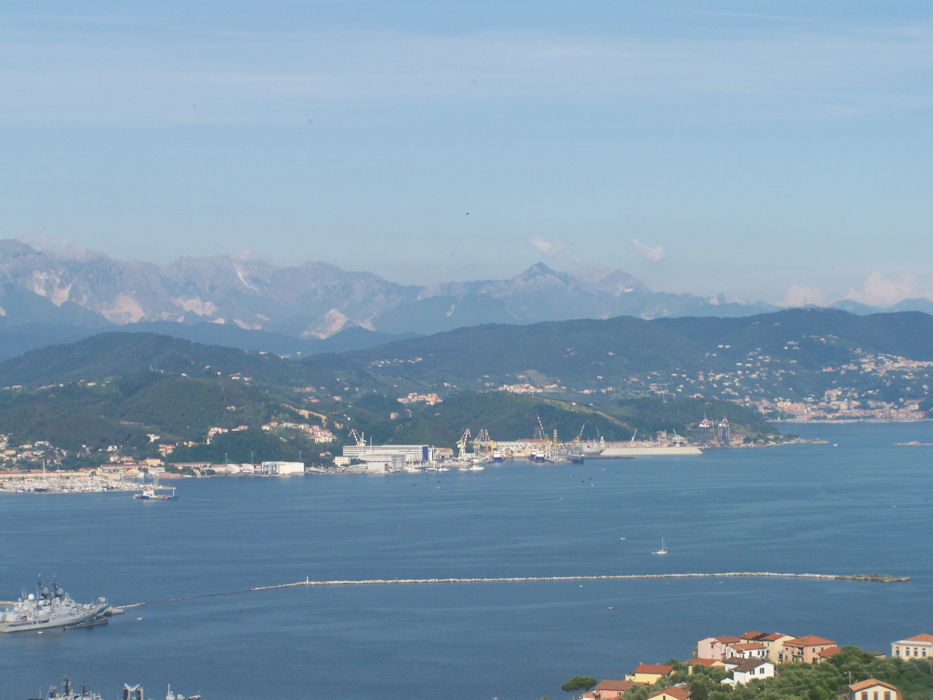 la Spezia